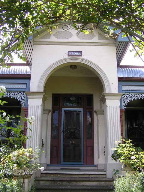 Arcola, Grafton